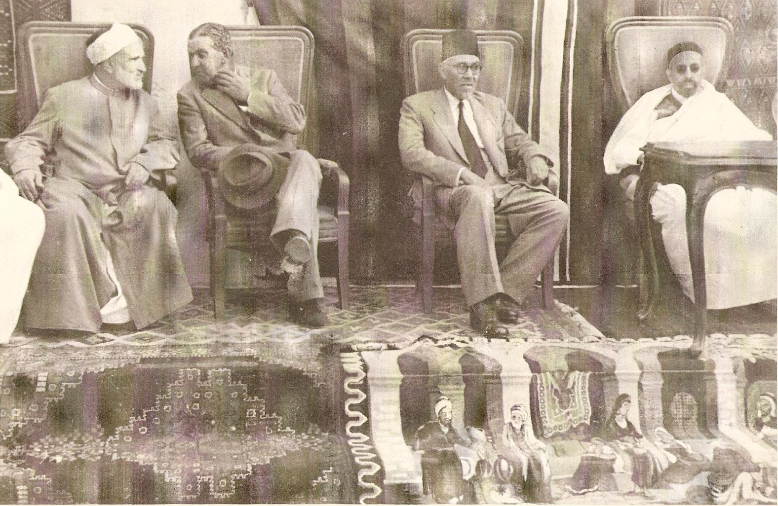 From left to right: 1. Sheik Mohammed Abu al As'ad Al Alem, Mufti of Tripoli; 2. British governor of Homs; 3. Bashir es Saadawi, president of Mu'tamar party; 4. Emir Idris es Senussi of Cyrenaica.